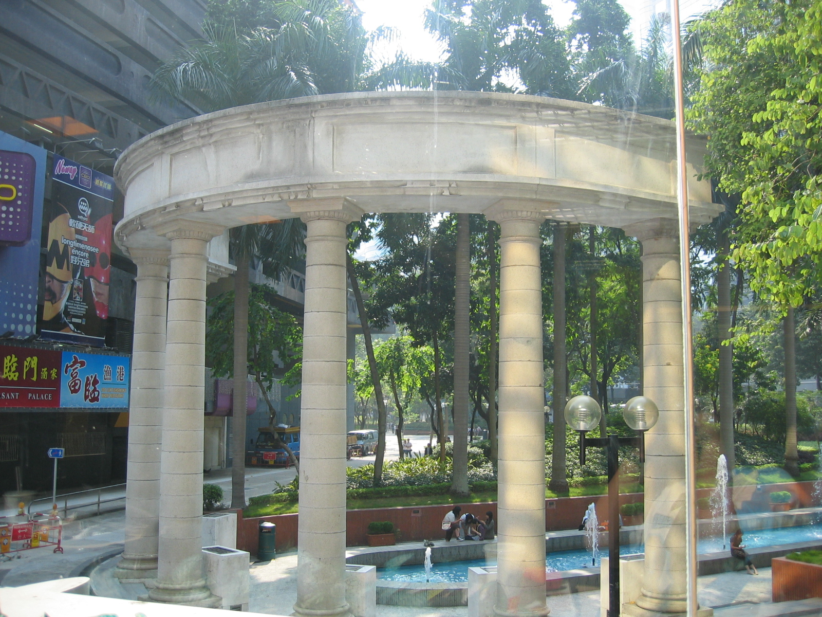 The Urban Council Centenary Garden in Tsim Sha Tsui East.